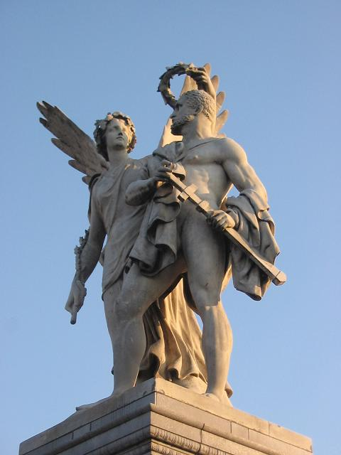 Palace bridge in Berlin, Nike crowns the hero (Nike bekränzt den Sieger) by Friedrich Drake 1853